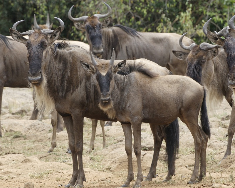 For now junior can rest, at least till the next river crossing 690V1697